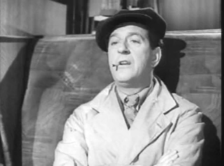 Stanley Holloway in The Way Ahead, film by Carol Reed (1944)